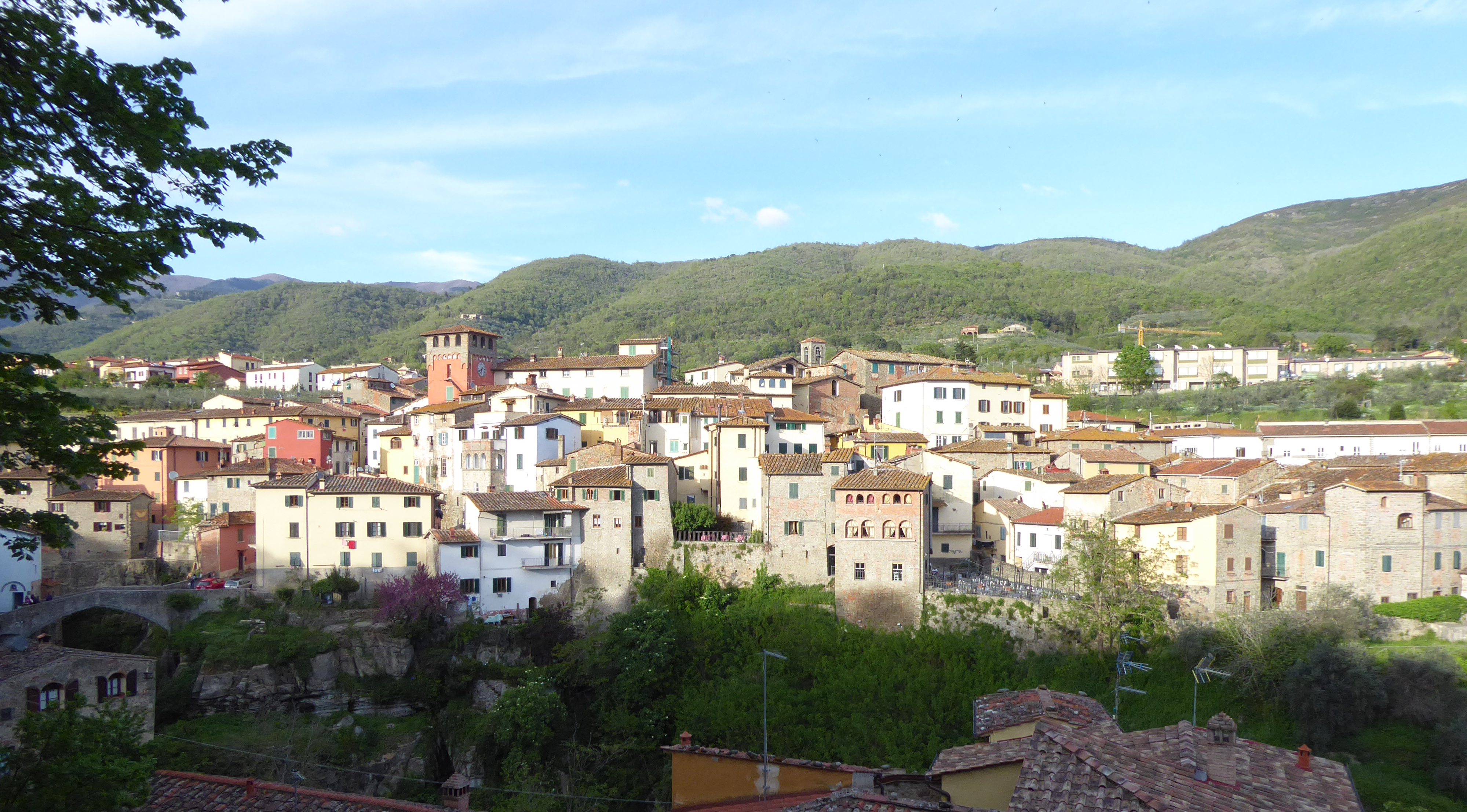 View of Loro Ciuffenna (Arezzo, Tuscany, Italy)